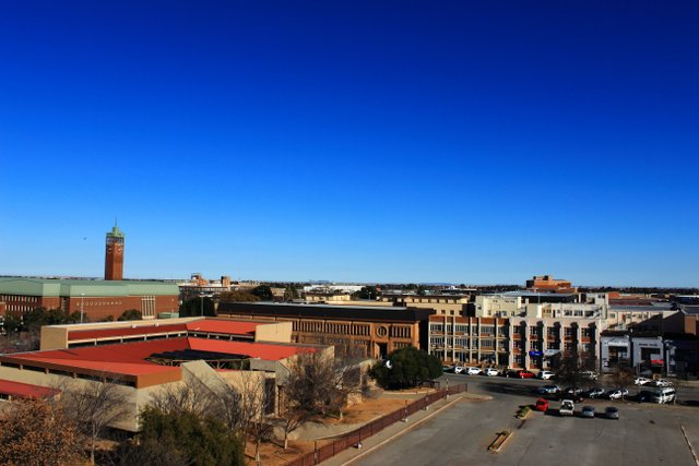 View of Welkom's city center